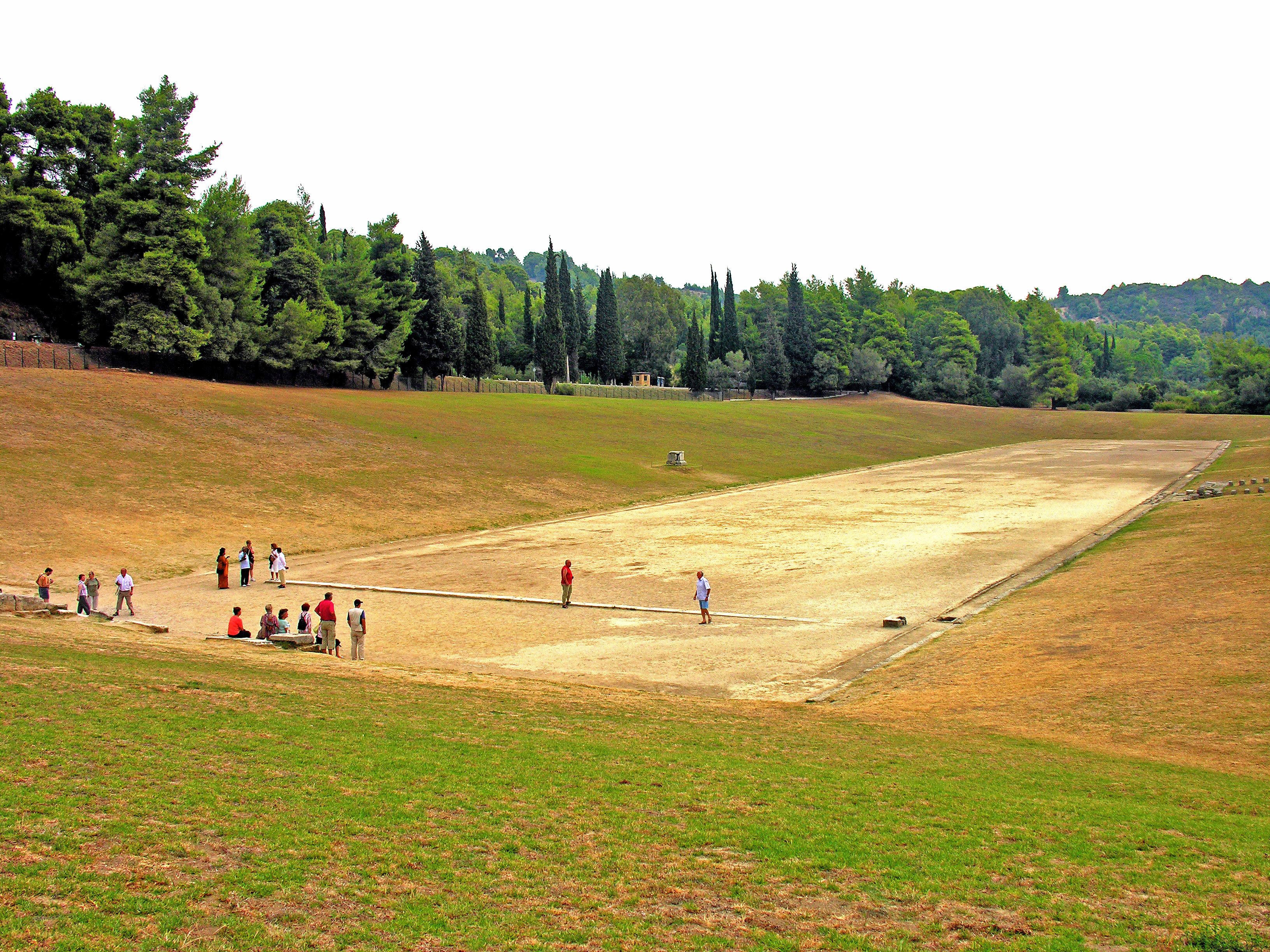 The stadium was originally within the sacred precinct. Gradually, the stadium was moved to its present location. All the embankments are of earth, and only a few stone seats were provided for officials. Connecting the sanctuary and stadium was a vaulted passageway, an early example of the use of vaulting by the Greeks.